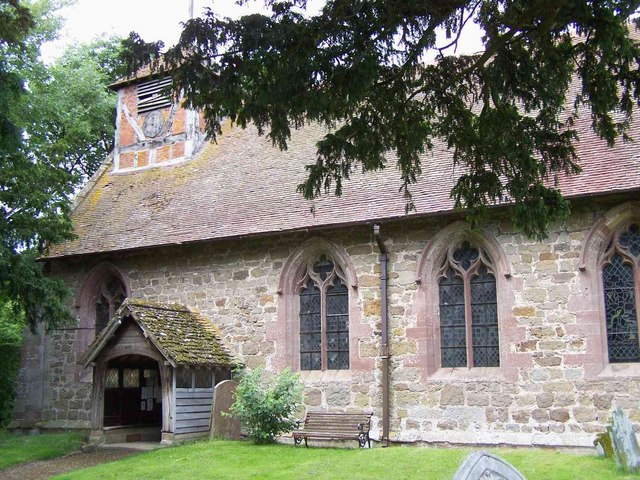 St. John The Baptist, Hughley A E Housman included a reference to its 'steeple' in poem # 61 of his collection 'A Shropshire Lad'